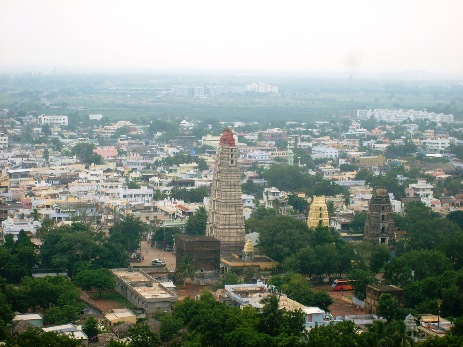 this is mobile cam pic taken by me